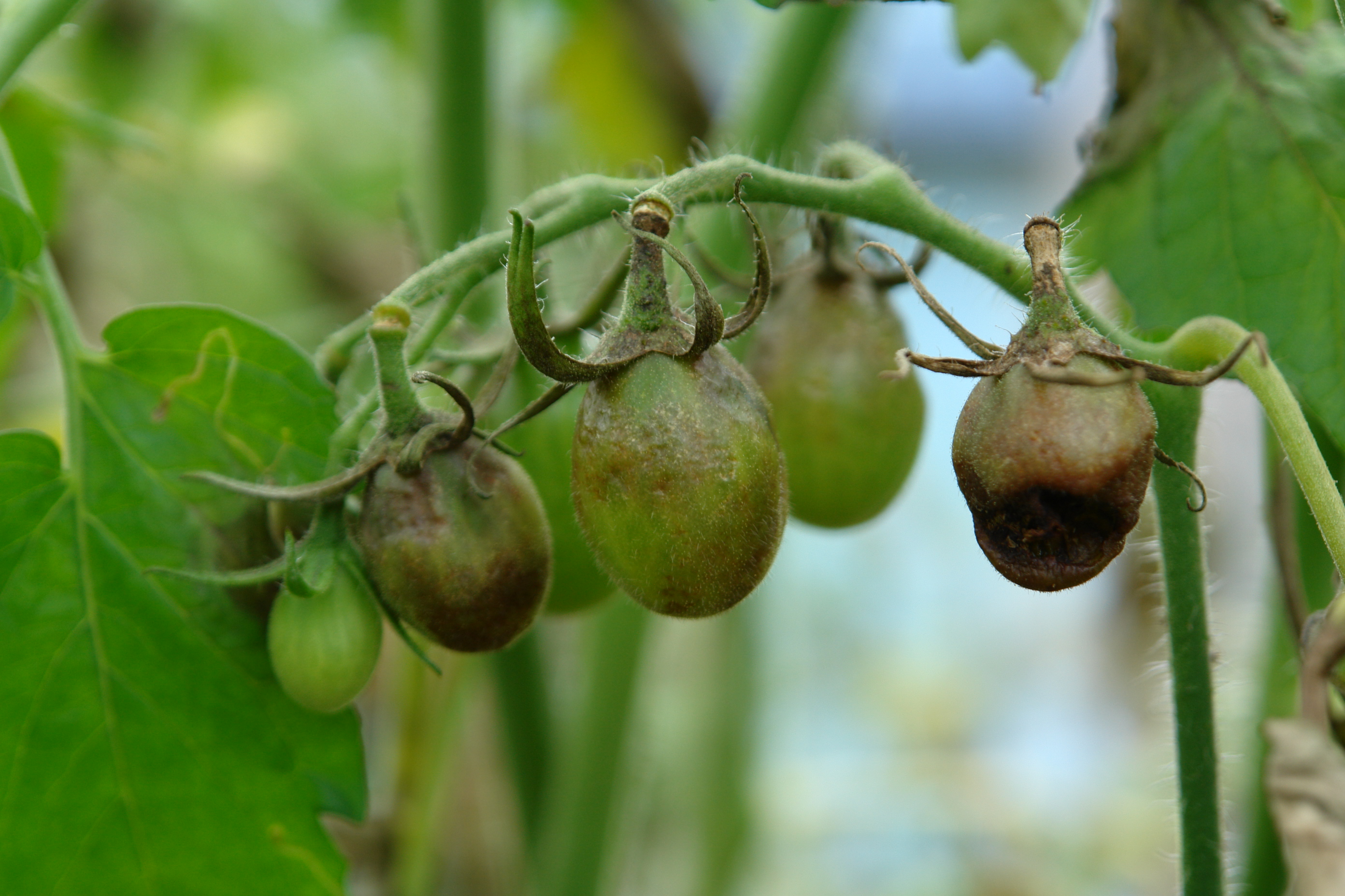 Late blight of tomato (Lycopersicon esculentum) in a garden near Hilo, Hawaii, caused by Phyophthora infestans